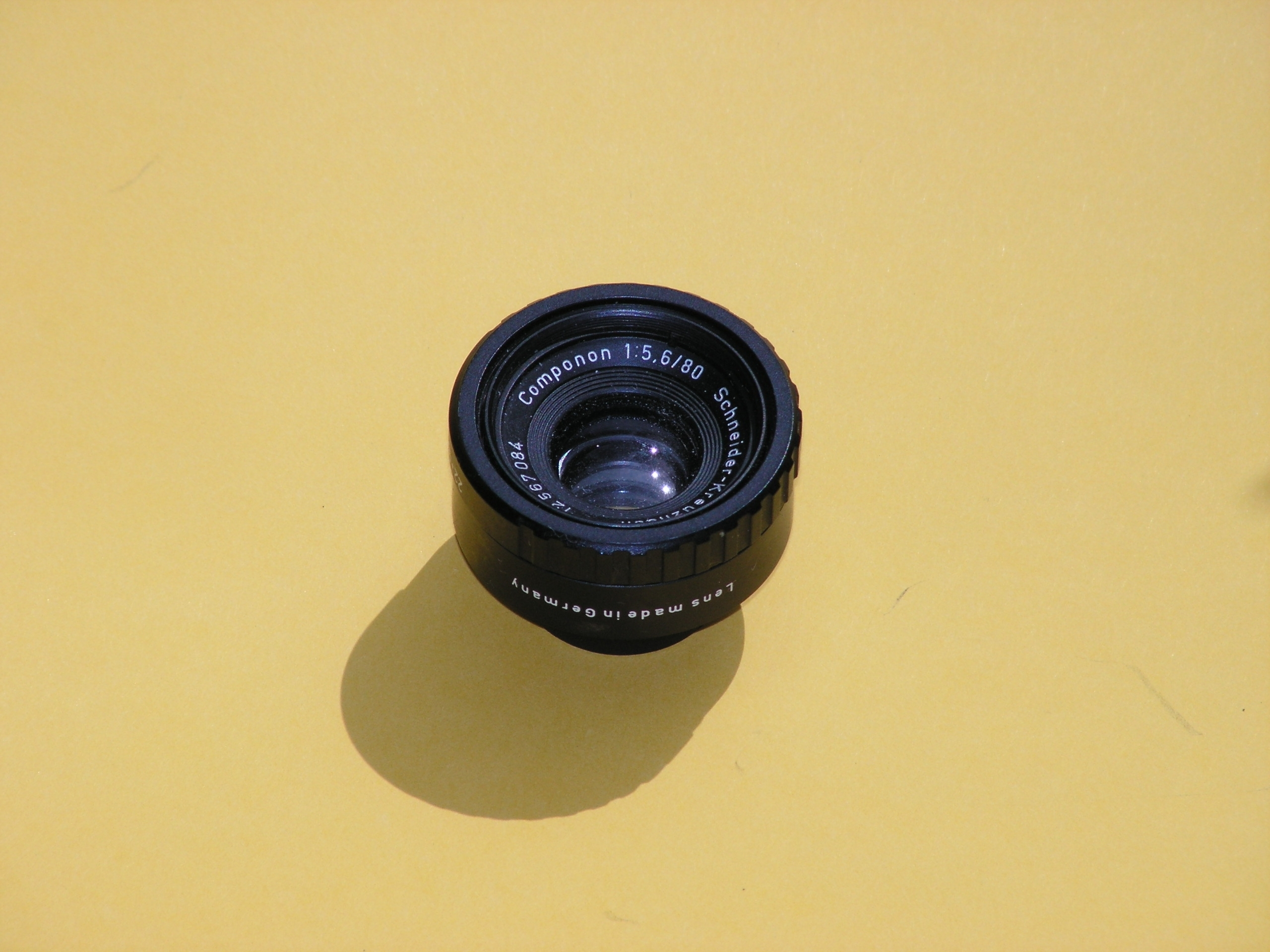 Lens for negative film enlarger. Componon 5,6/80mm made by Schneider-Kreuznach. Foto Stefan Linder